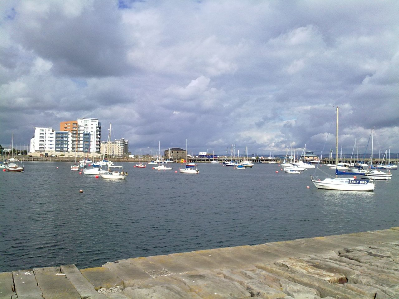 Granton Harbour - view of the middle pier from the east breakwater